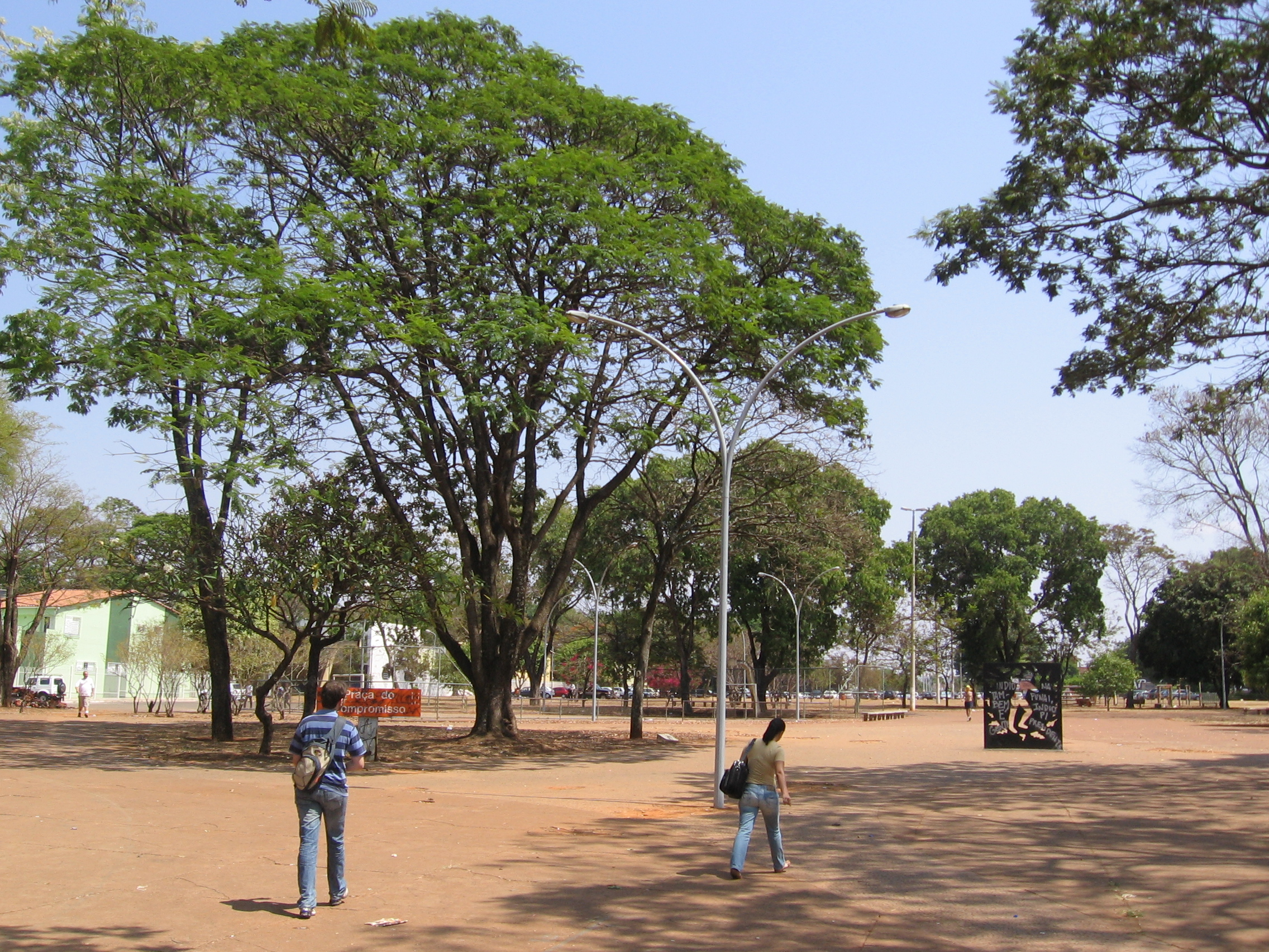 Picture of Compromise Square in Brasilia, Brazil